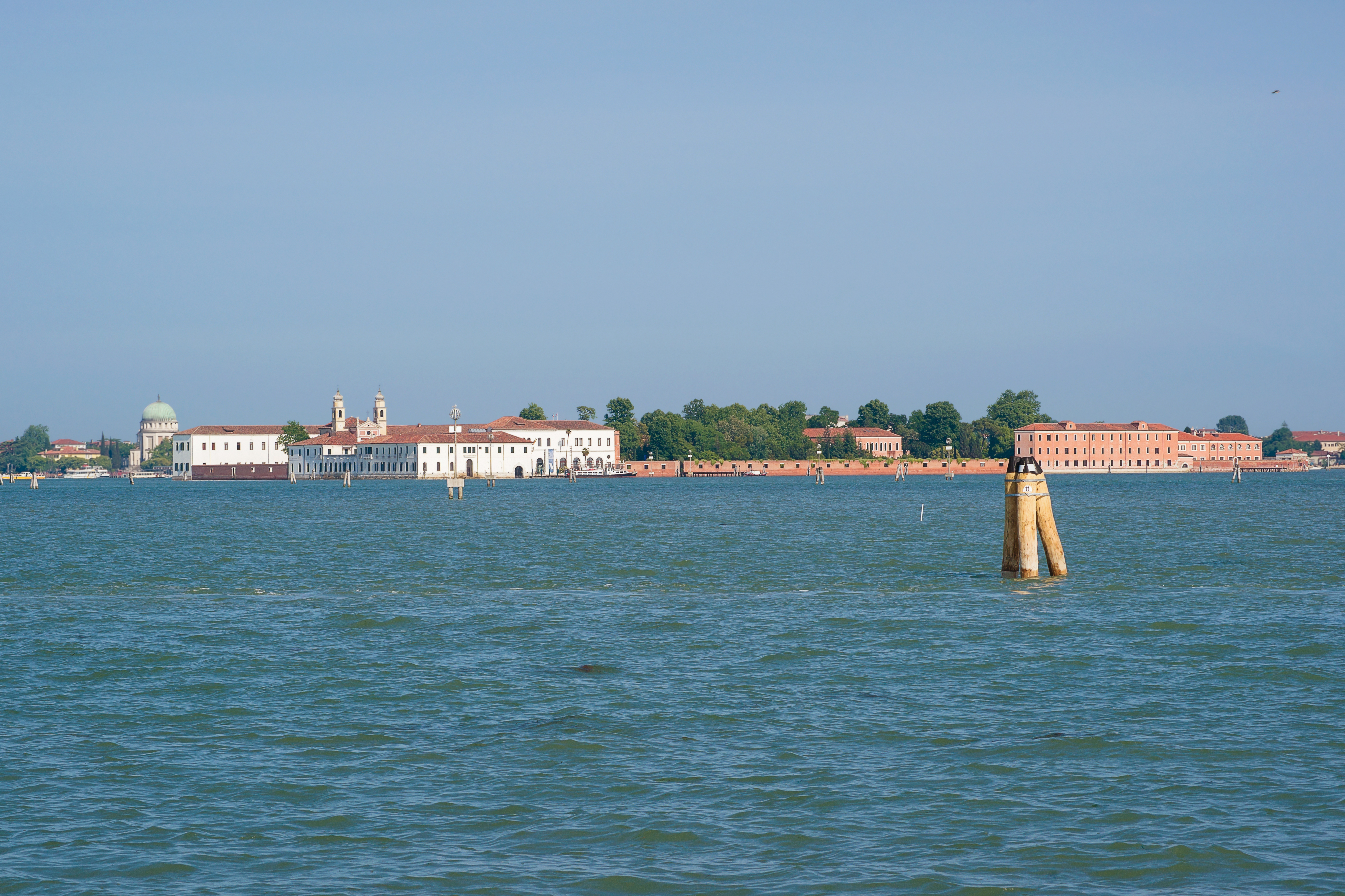 San servolo Island Venice.